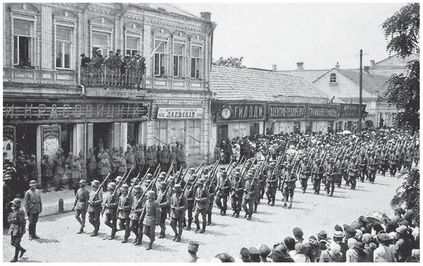 Parade of the German army in Crimea, 1918